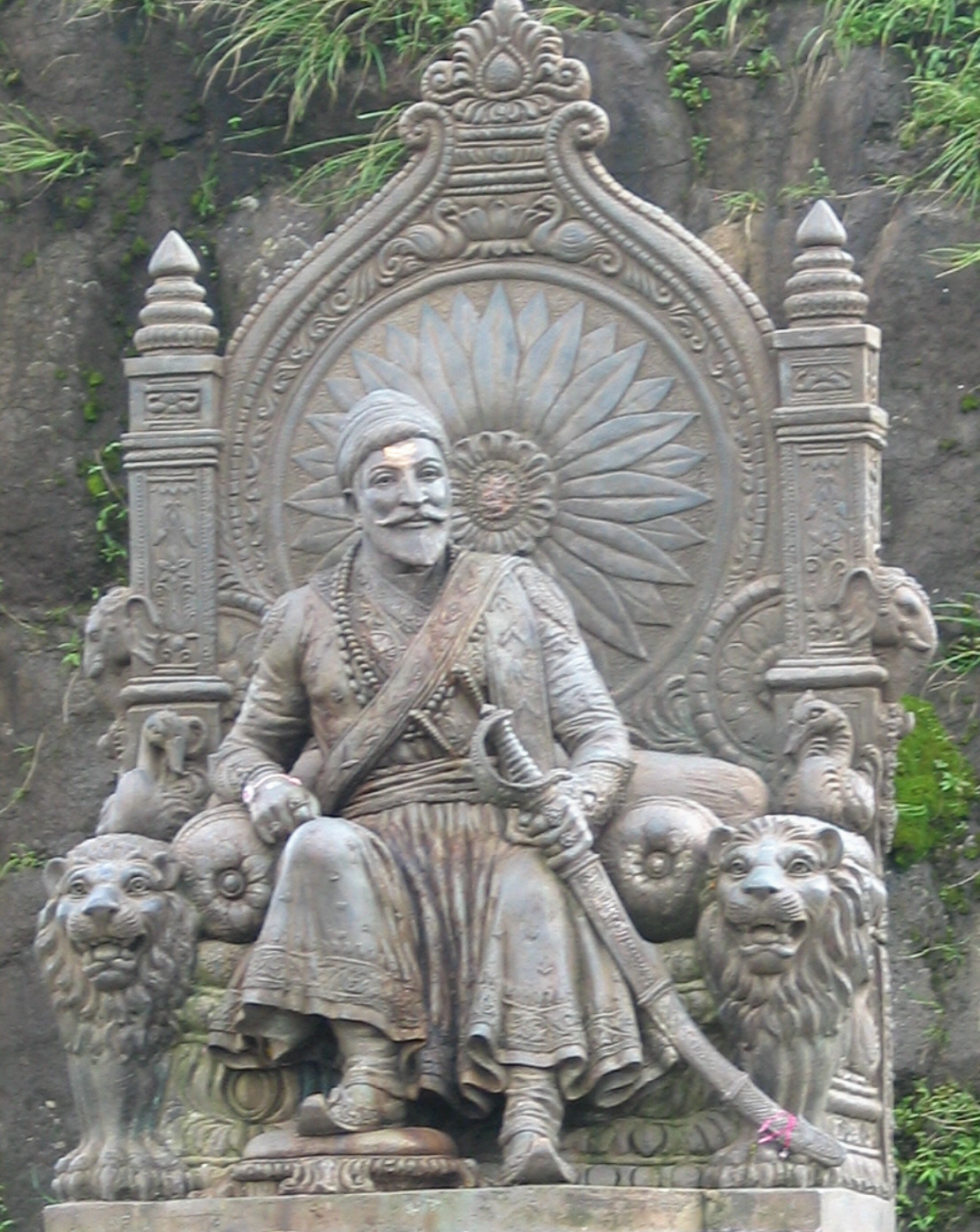 Photo of Shivaji's Raigad fort ==